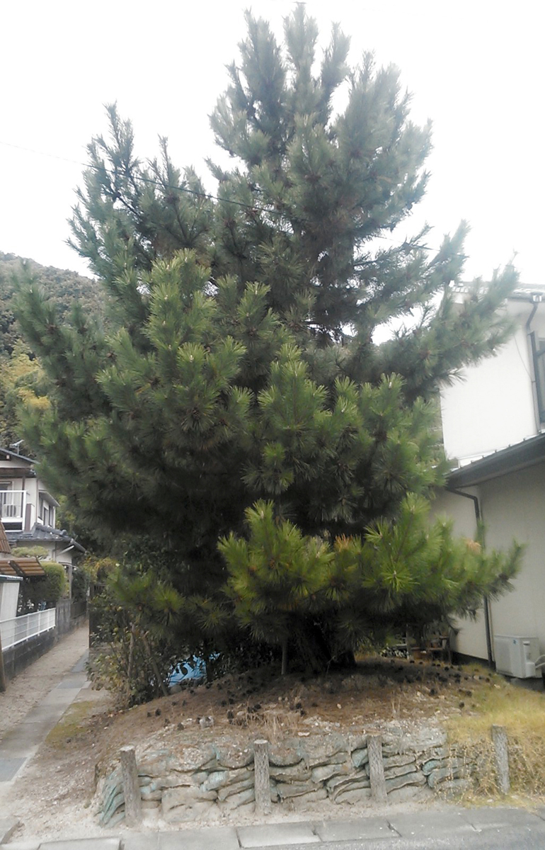 Makane-Ichirizuka(North side), Kibitsu, Kita-ku, Okayama, Sanyo-do road, Japan